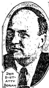 William C. Doran (1884-1965) was an associate justice of the California Court of Appeal, Second Appellate District, Division 1, from October 14, 1935, until 1958. He was born December 21, 1884, in Cincinnati, Ohio, and died January 23, 1965, in Los Angeles, California. Los Angeles Times photo printed in the newspaper on August 6, 1922.